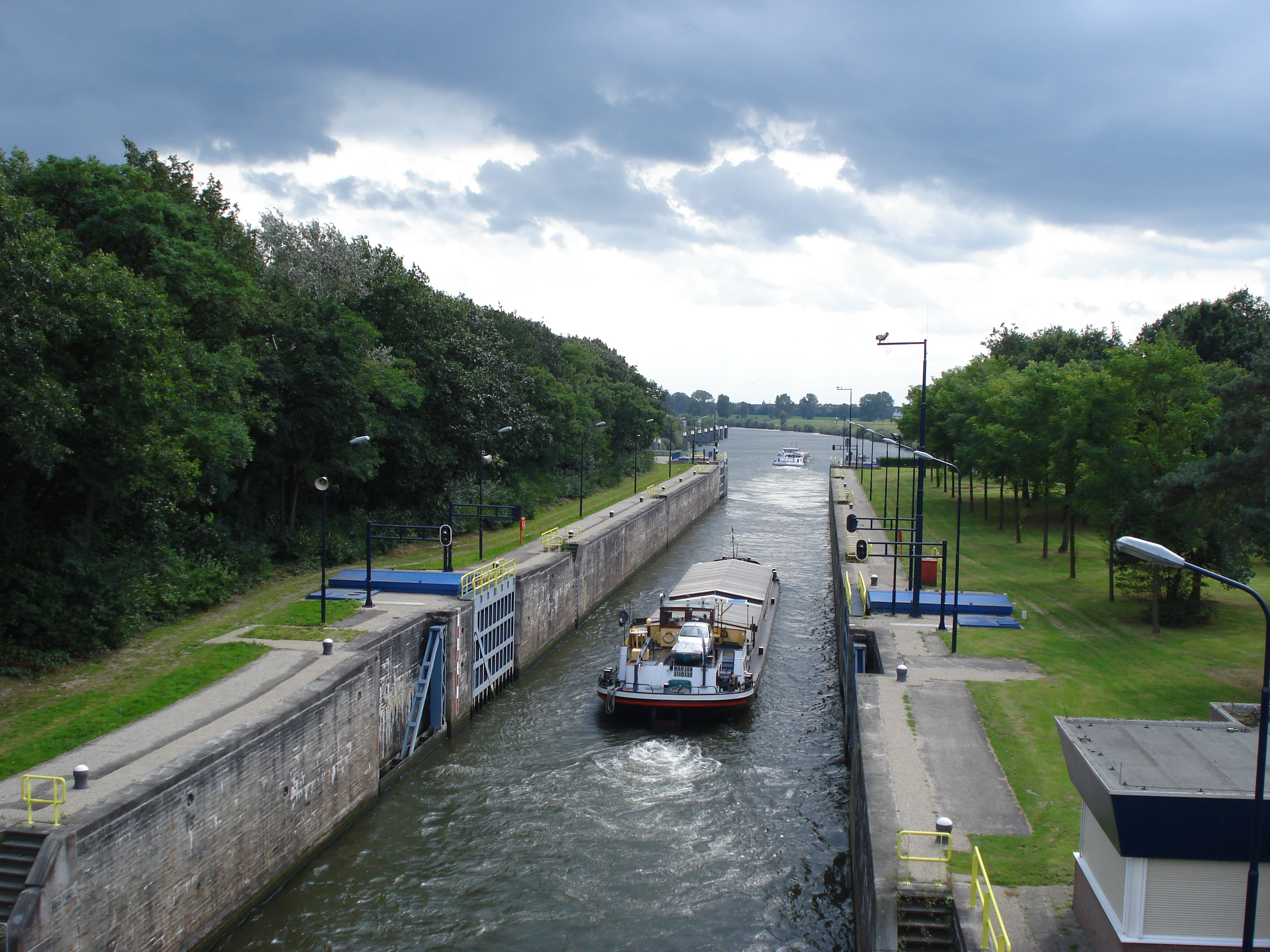 Heumen (Gld, NL), canal lock Maaswaalkanaal